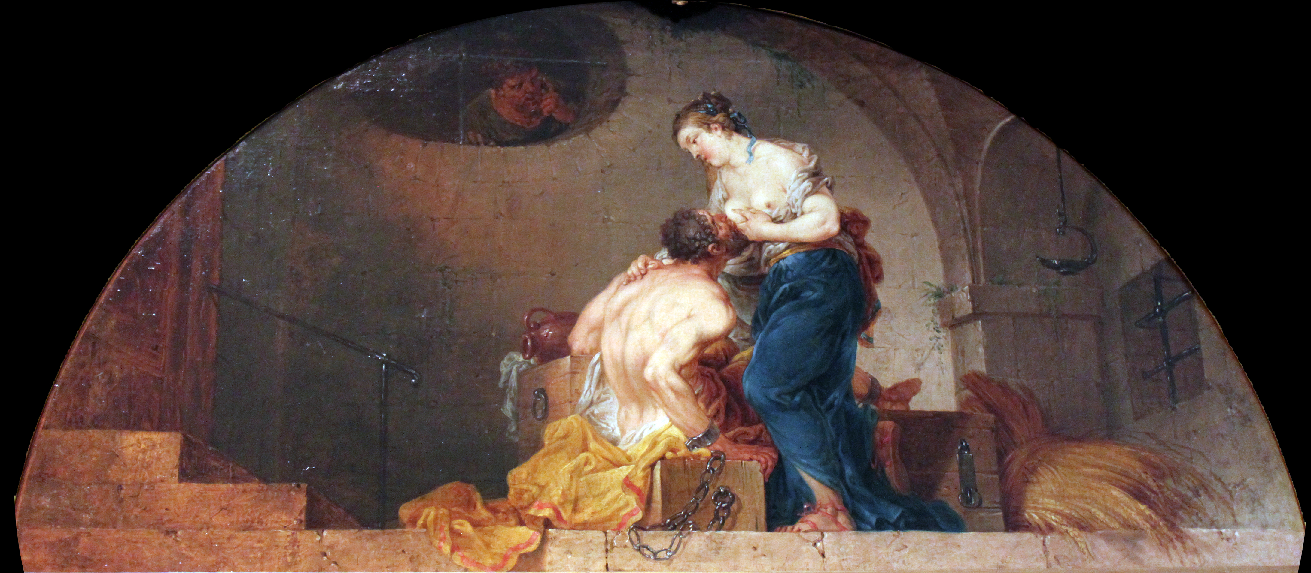 In a cold dungeon the young Pero gives her breast to her father Cimon, who is condemned to starvation. The subject matter, often found in Antiquity, became very popular in the 18th century. It is a symbol of charity and testifies to a child's love for its parents.